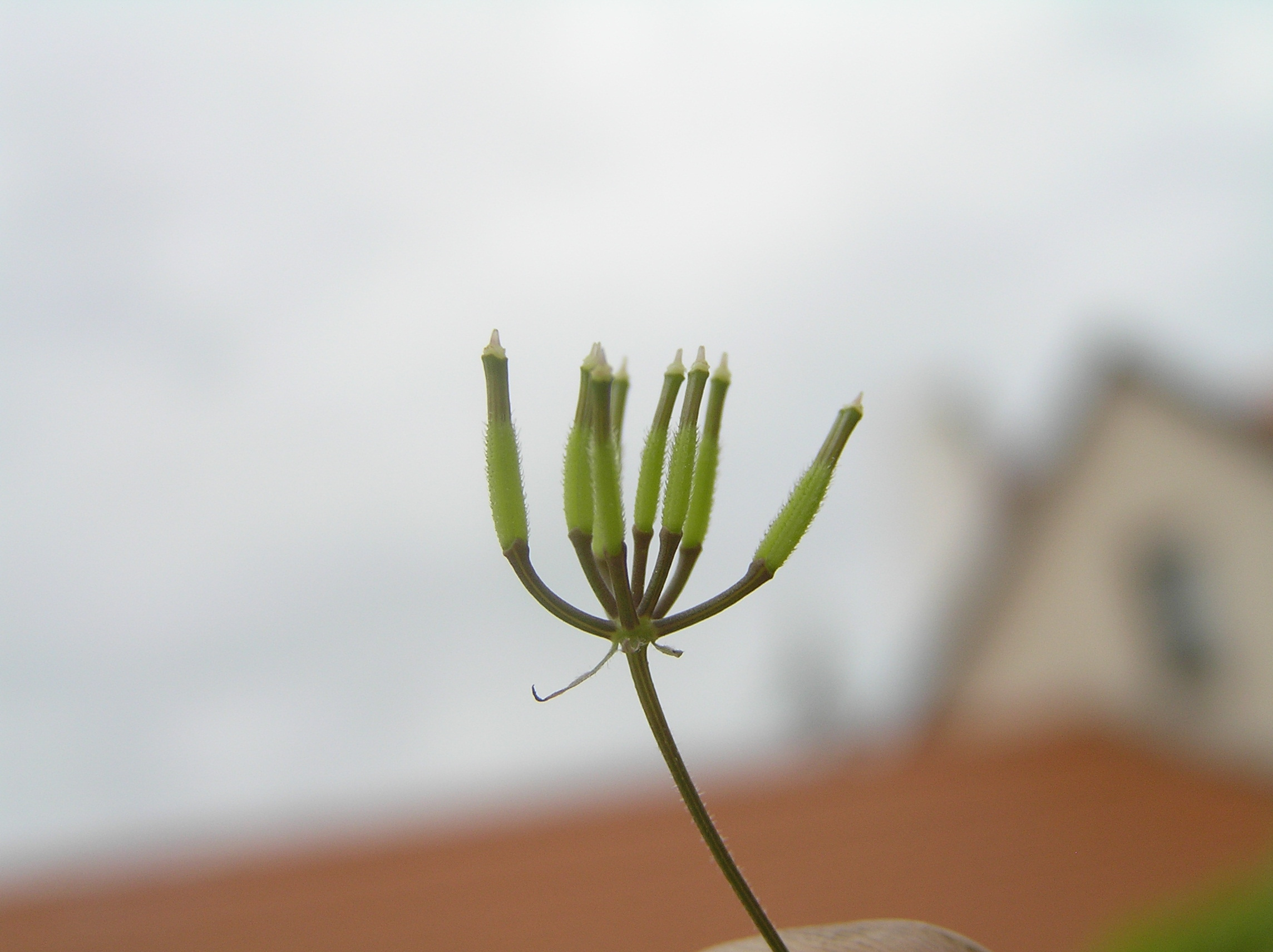 Anthriscus cerefolium subsp. trichosperma, Miulov, Southern Moravia, Czech Republic